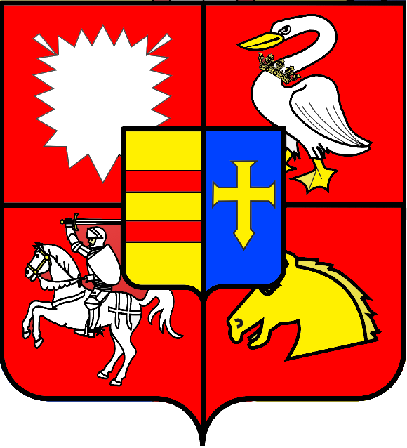 Basic coat of arms of the House of (Schleswig-Holstein-Sonderburg-)Glücksburg.